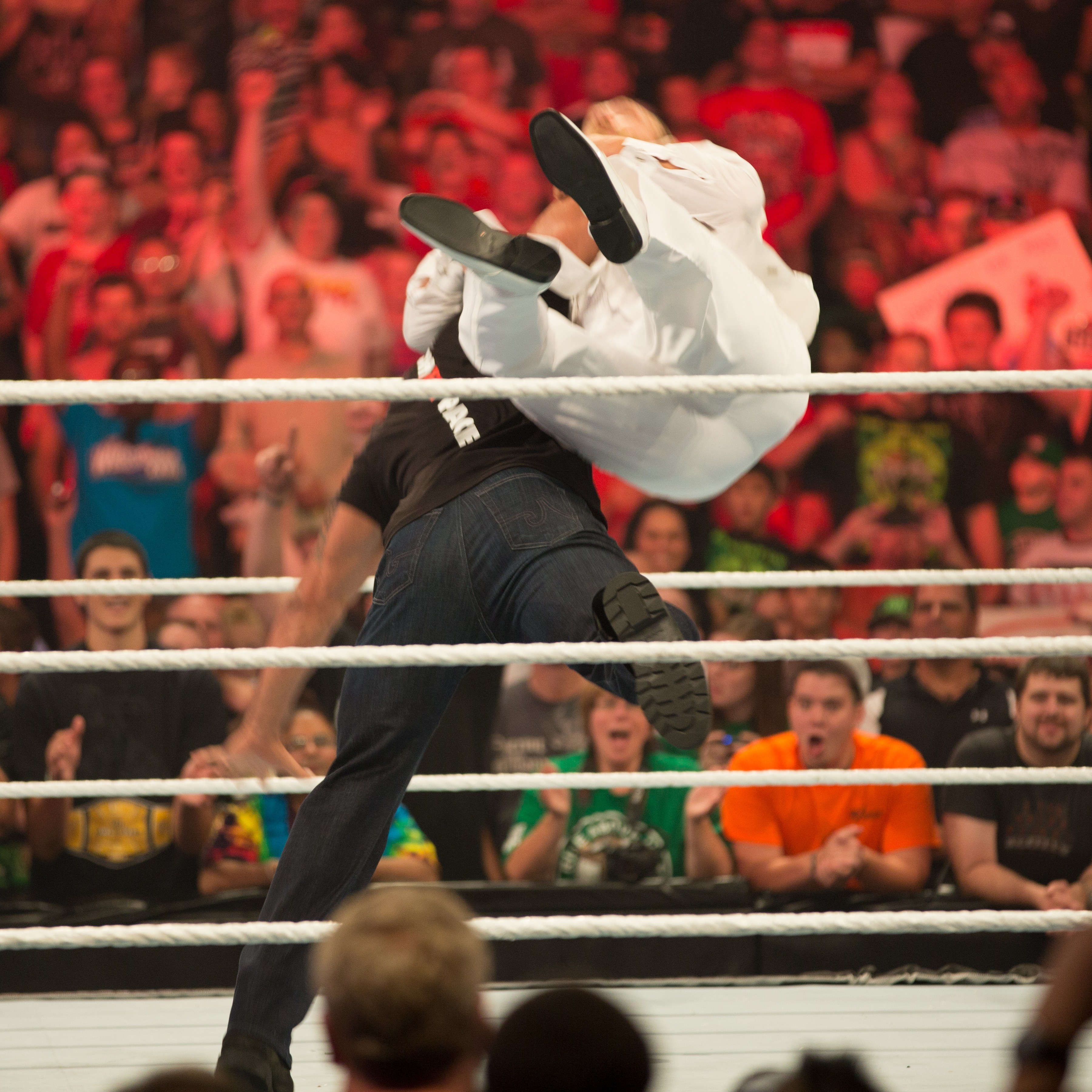 The Rock's wedding gift to the jilted groom, Daniel Bryan, during Raw 1000.